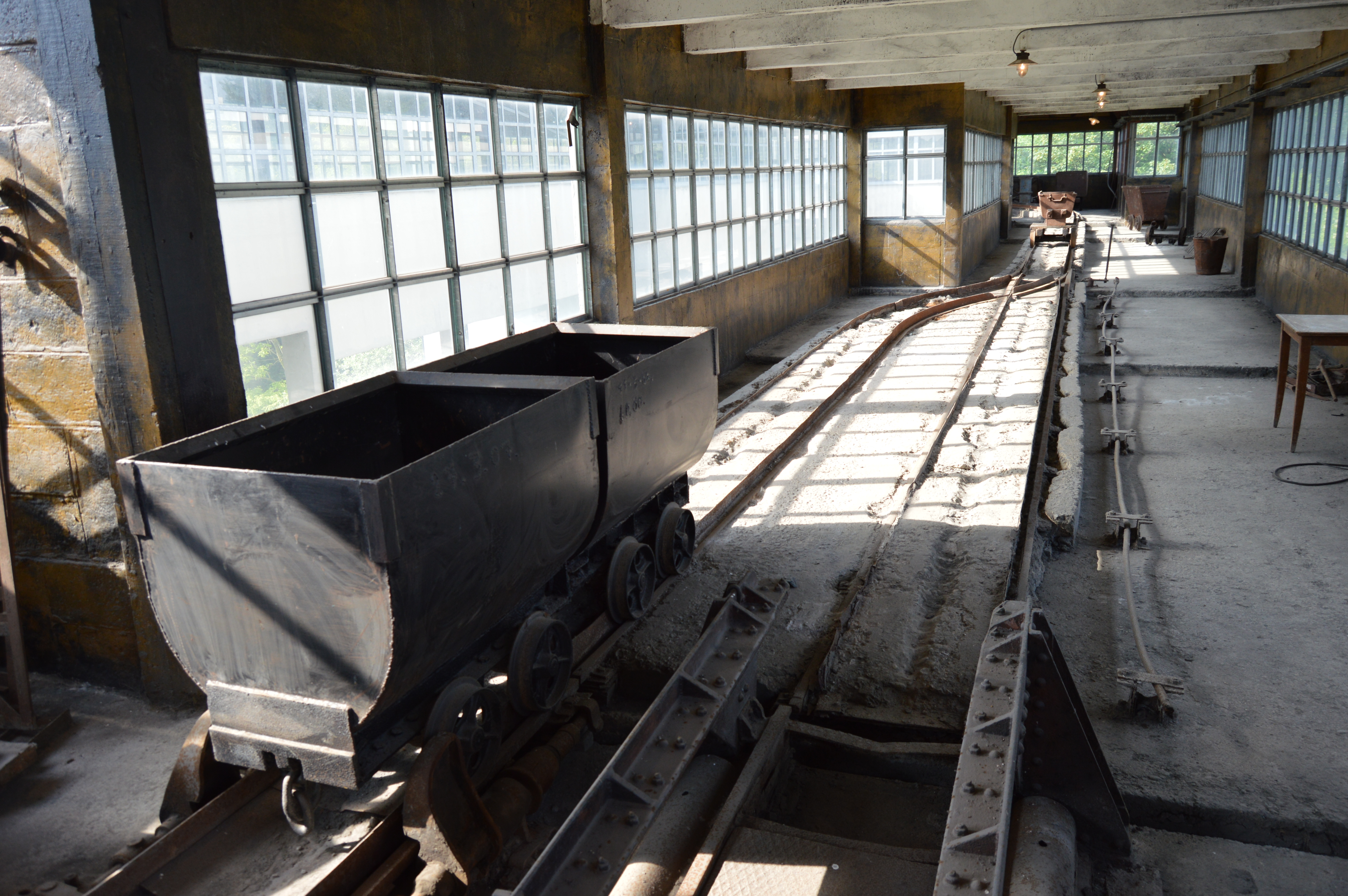 Ancient Argenteau coal mine ("Blegny-Mine", UNESCO) in Blegny, Belgium